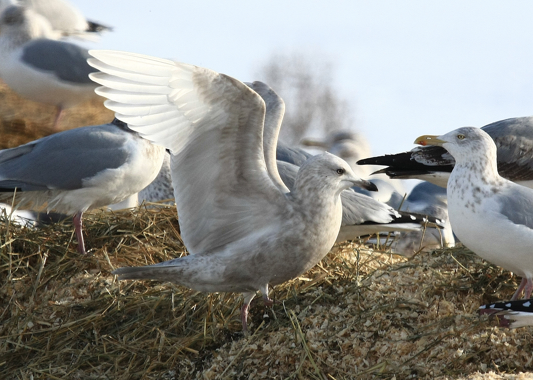 Iceland Gull, immature. Dryden, NY.